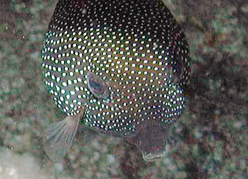 Young Ostracion meleagris